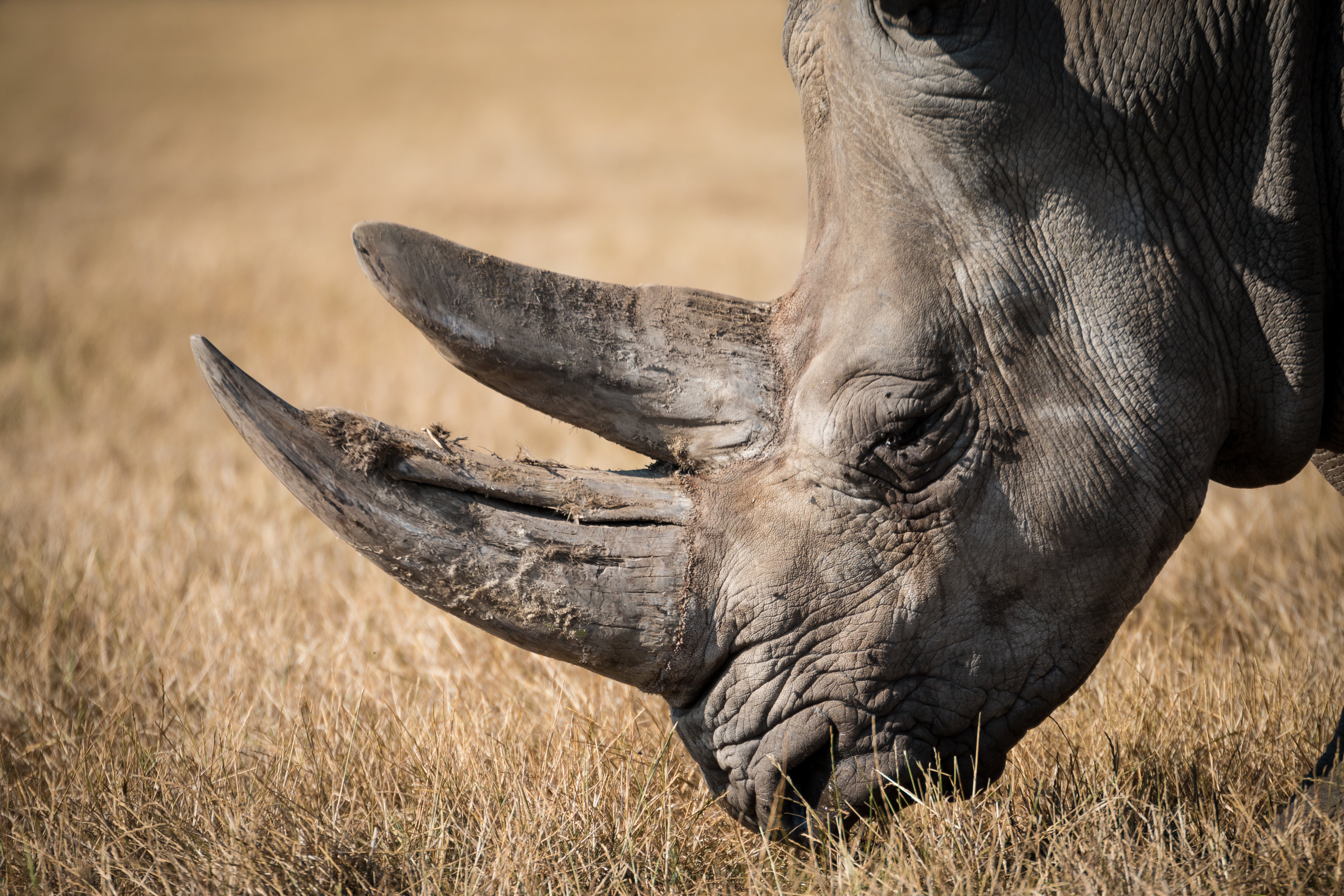 A Black Rhino grazing on grass